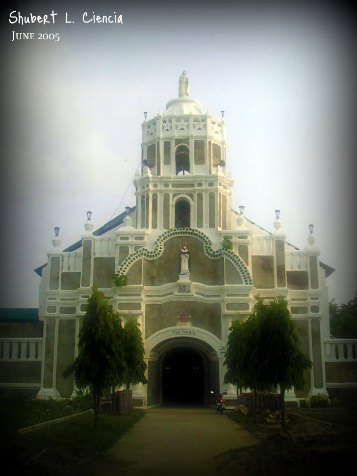 The town of Sto. Domingo was established in 1742. On the same year, Fr. Jose Millan (OP) started building the church bell tower and probably the church itself. Diego Silang once served as a bell ringer in the church.